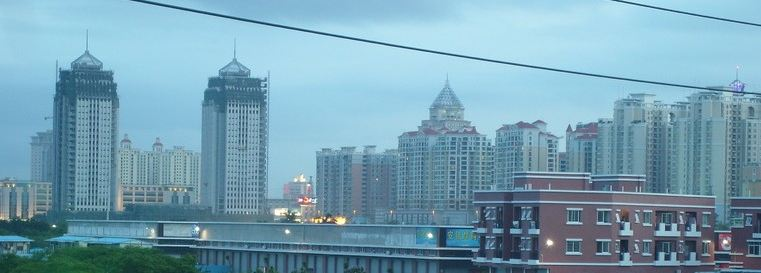 Guzhen Town